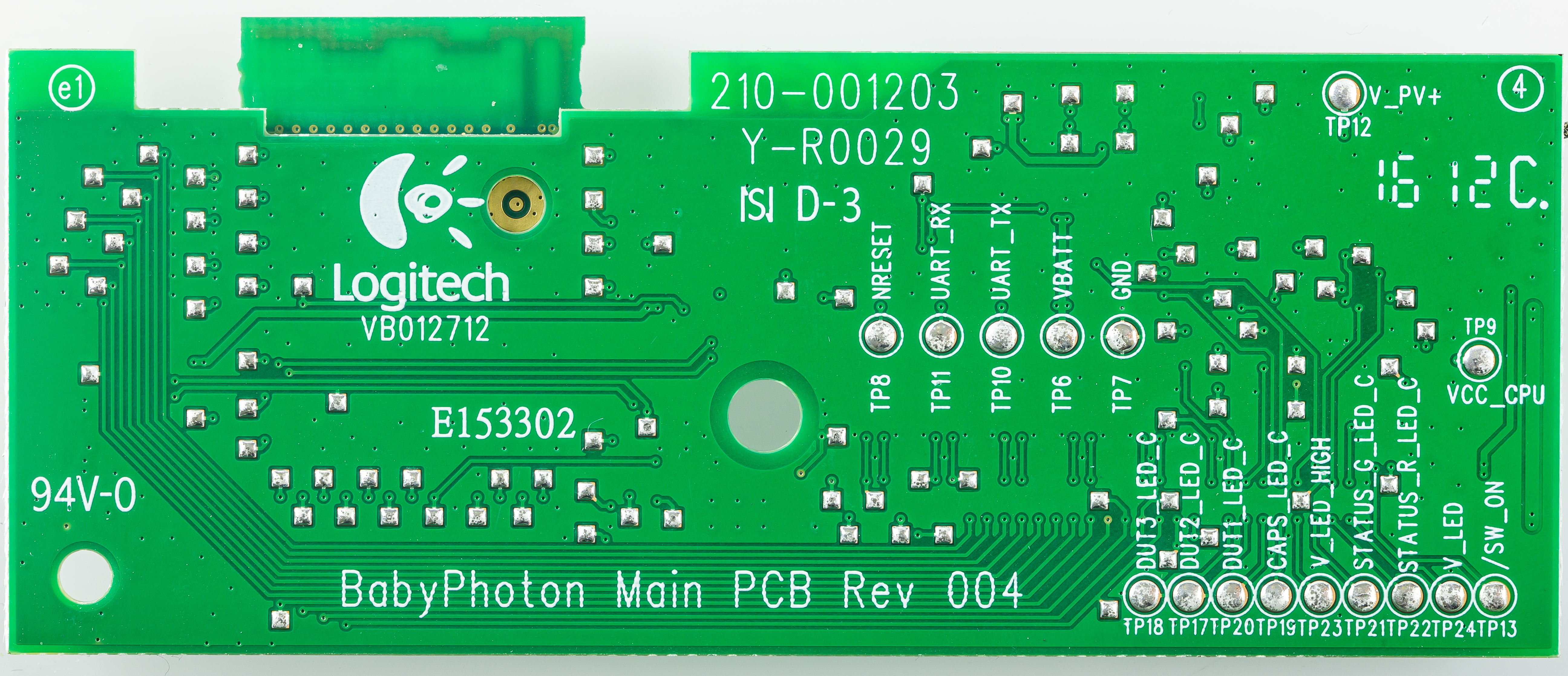 Logitech K760 - BabyPhoton Main PCB - rear view